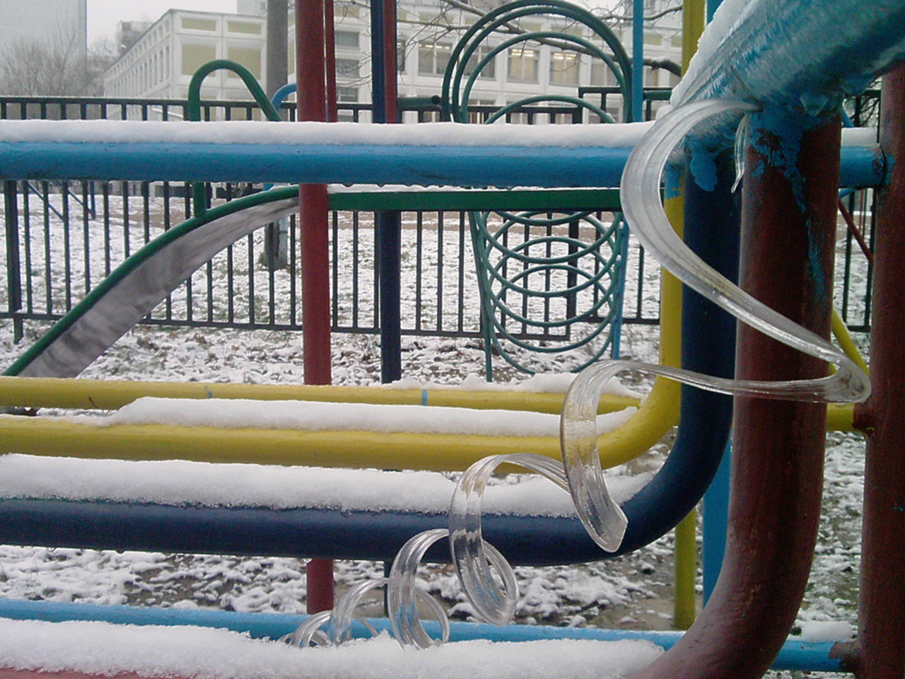 Icicle found in Moscow in 2010